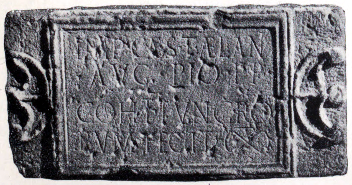 RIB 2155. Honorific Building Inscription of the First Cohort of Tungrians. CIL VII 1099 = RIB I, 2155: Imp(eratori) Caes(ari) T(ito) Ael(io) Ant(onino) / Aug(usto) Pio p(atri) p(atriae) / coh(ors) I Tungro/rum fecit oo(miliaria).